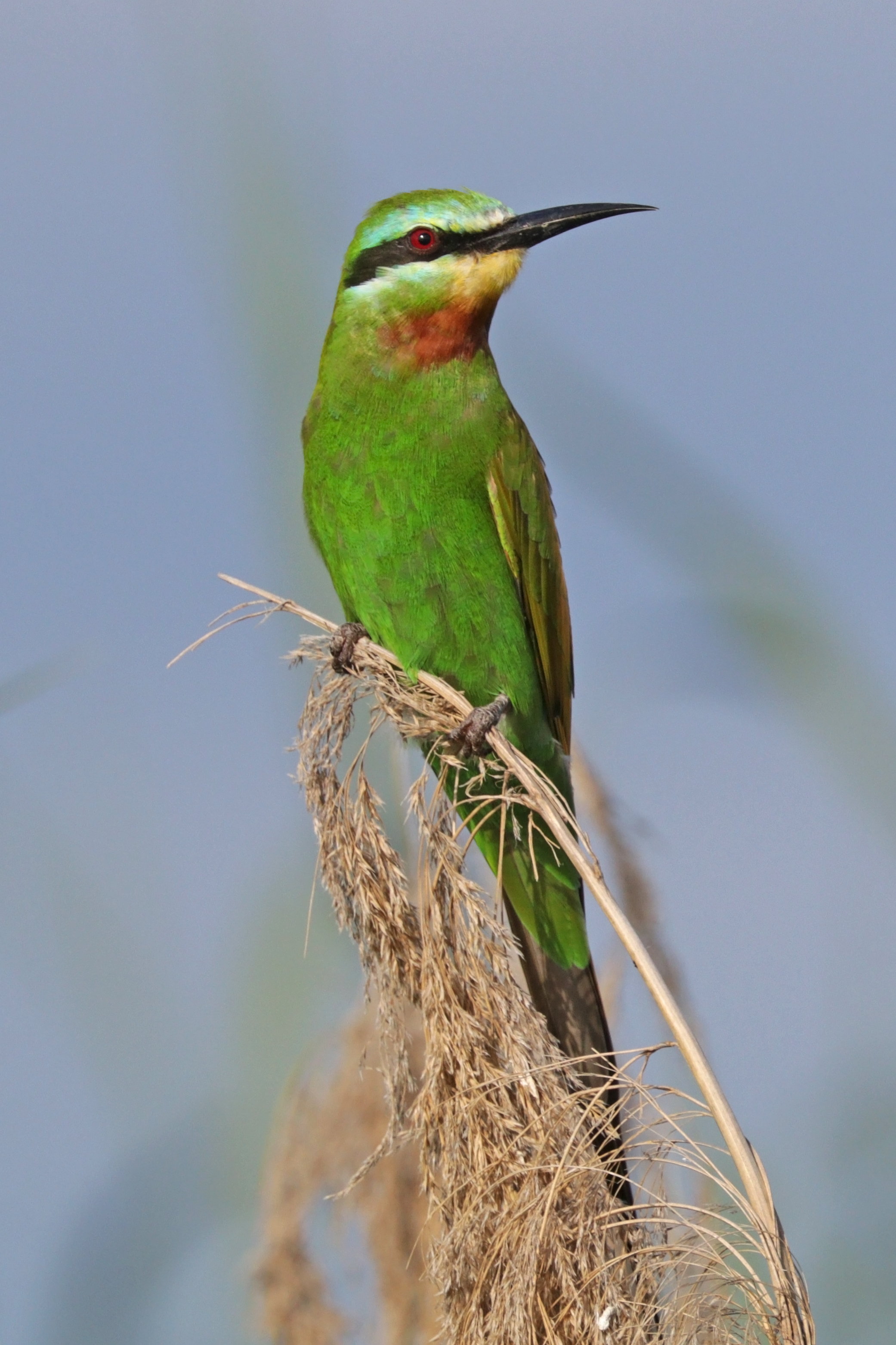 Blue-cheeked bee-eater (Merops persicus persicus), Matetsi Safari Area, Zimbabwe